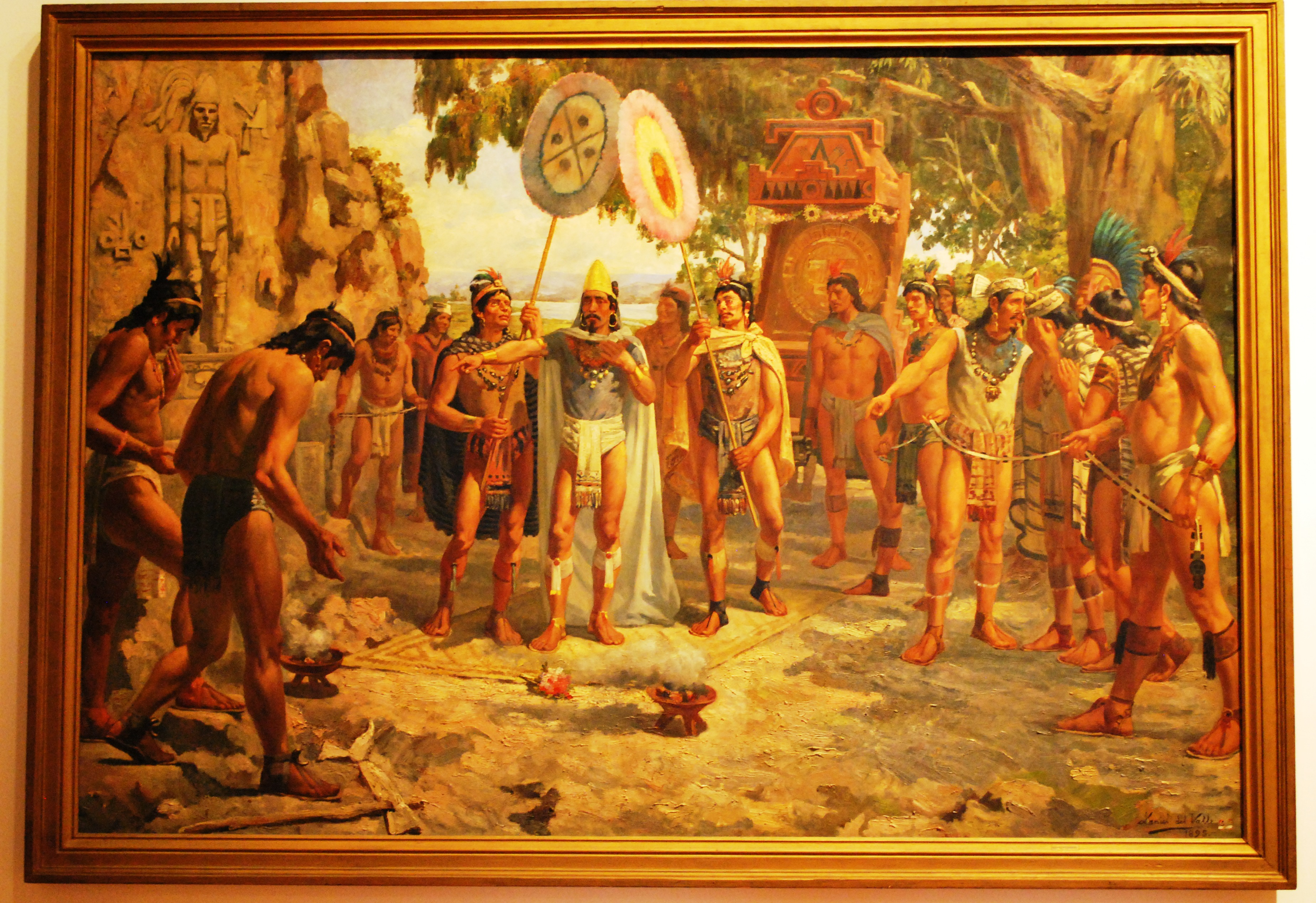 "Moctezuma en Chapultepec" by Daniel del Valle (1867-?) done in 1895 on display at the Museo Nacional de Arte in Mexico City